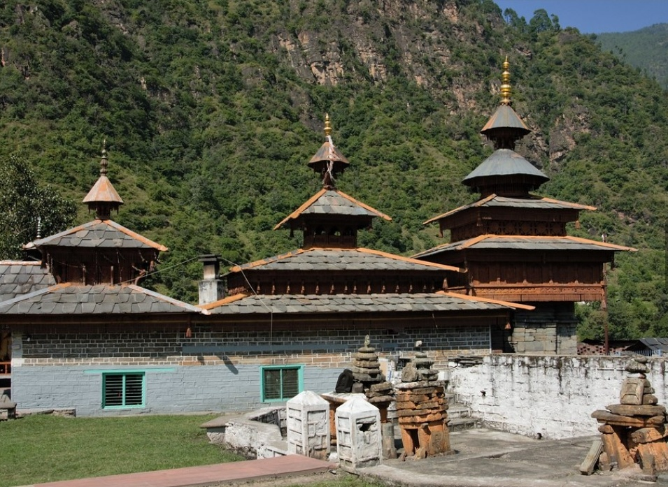 This photo has been taken in the country: India